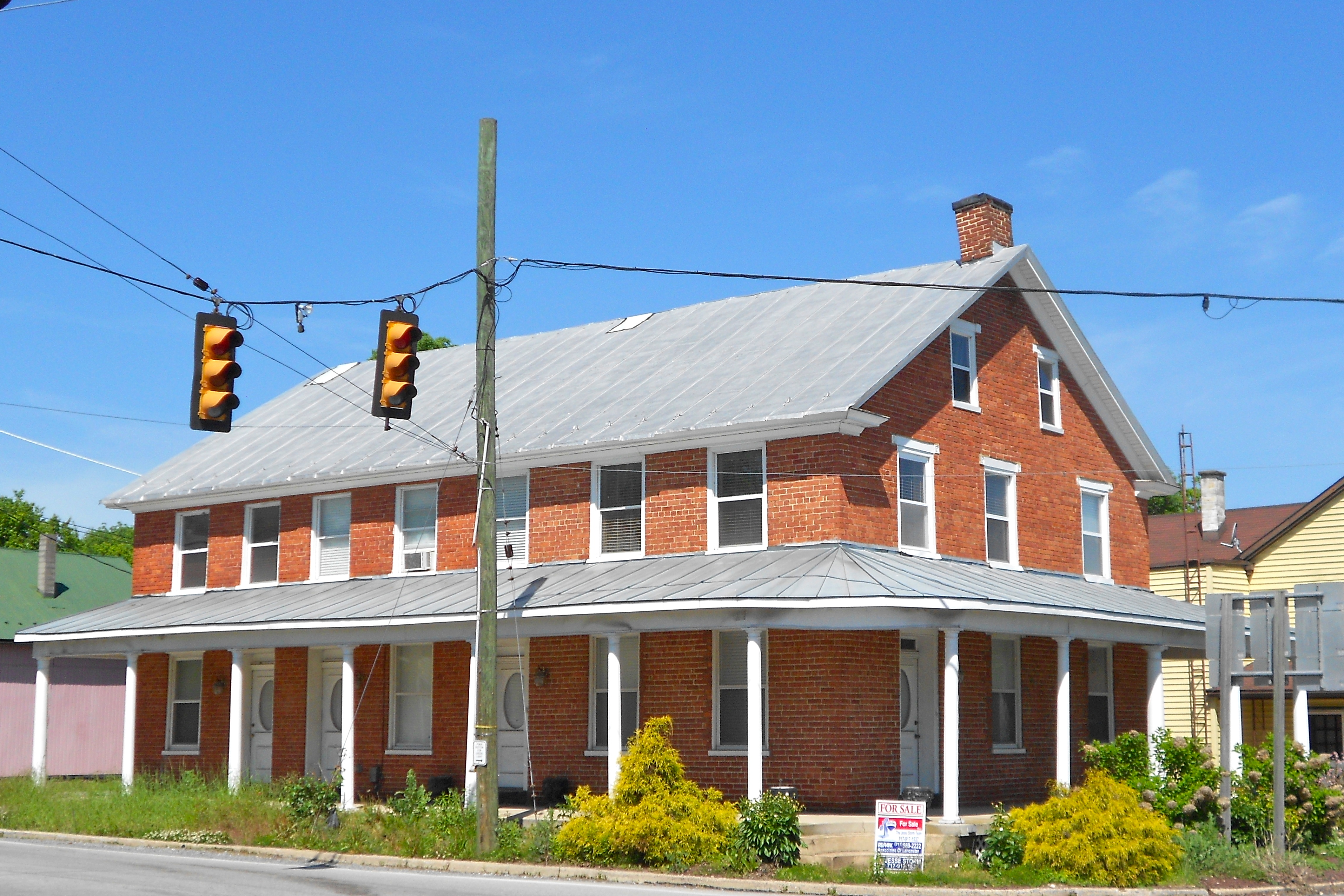 Rossville, Warrington Township, York County, Pennsylvania